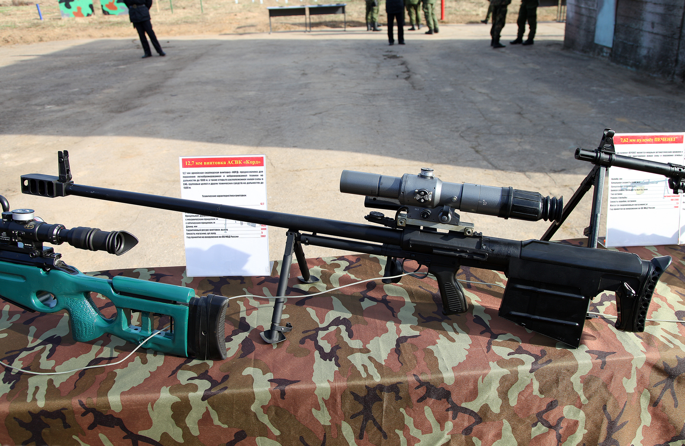 ASVK antimaterial rifle